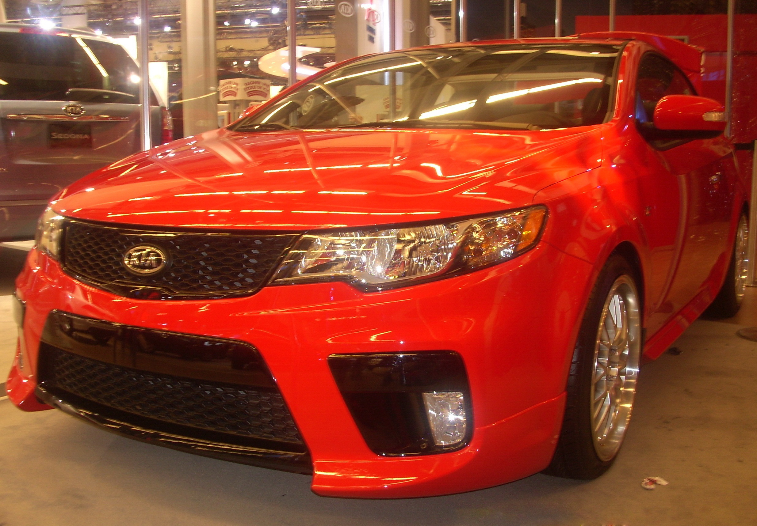 2010 Kia Forte Koup photographed in Montreal, Quebec, Canada at the 2010 Montreal International Auto Show.